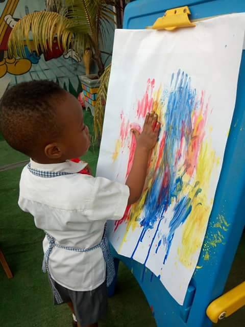 Practical life class This is an image with the theme "Play" from: Nigeria